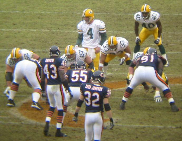 A shot from the Chicago Bears vs Green Bay Packers game during the en:2004 Chicago Bears season. The photo was taken on January 2, en:2005. Seen here, Packers quarterback Brett Favre examines the Bears' defensive scheme before taking a snap. Source - Flickr Author - McBLG97 License - CC-SA-2.0 Uploader - ShadowJester07 ?Talk Upload Date - 23:05, 28 May 2007 (UTC)